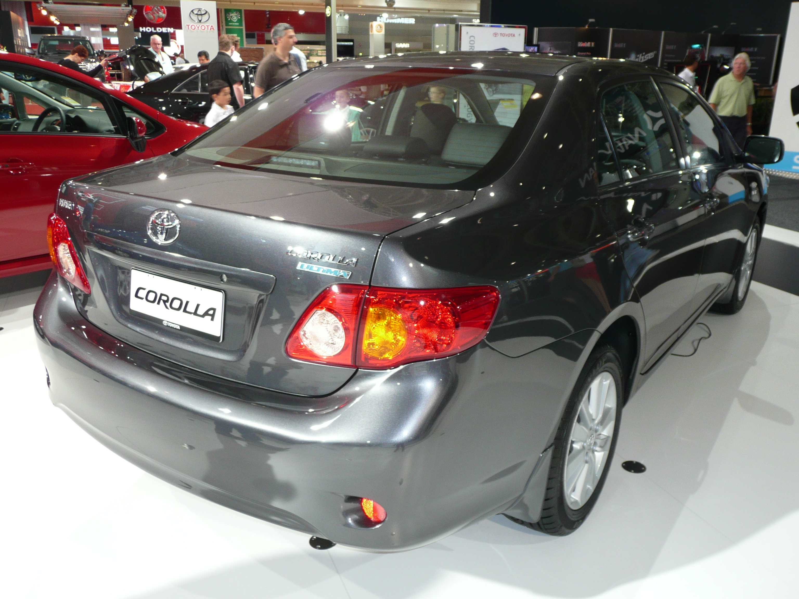 2007 Toyota Corolla (ZRE152R) Ultima sedan. Photographed at the 2007 Australian International Motor Show, Sydney, New South Wales, Australia.